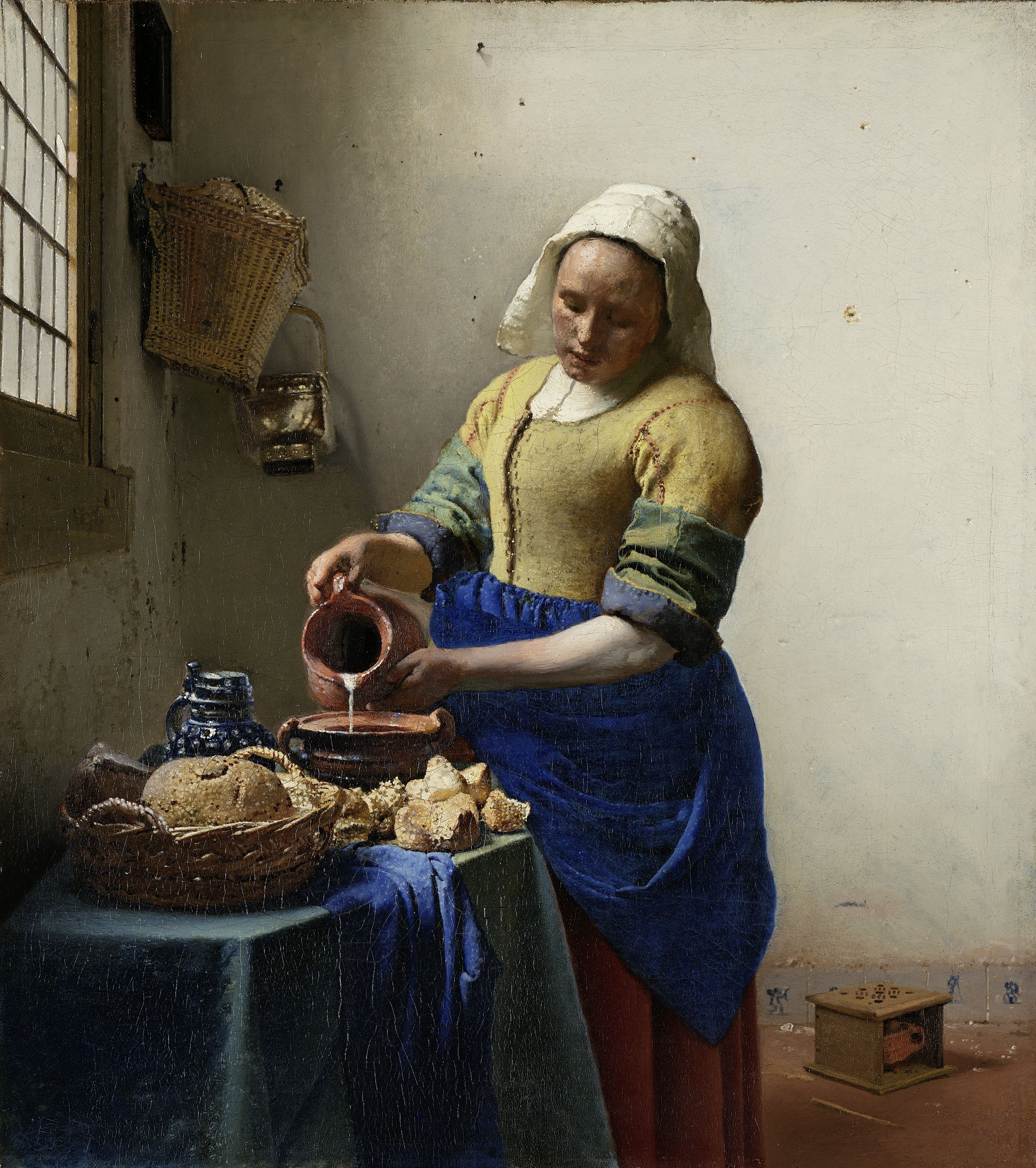 Vermeer, The Milkmaid, 1660